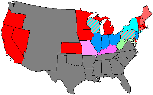 Summary of party control of U.S. house seats in the 38th United States Congress following election. Stripes indicate a tie between two or more parties. Legend: 80.1-100% Democratic seat majority 60.1-80% Democratic seat majority 60% or less Democratic seat plurality 60% or less Republican seat plurality 60.1-80% Republican seat majority 80.1-100% Republican seat majority 60% or less Unconditional Unionist seat plurality 60.1-80% Unconditional Unionist seat majority 80.1-100% Unconditional Unionist seat majority 60% or less Unionist seat plurality 60.1-80% Unionist seat majority 80.1-100% Unionist seat majority